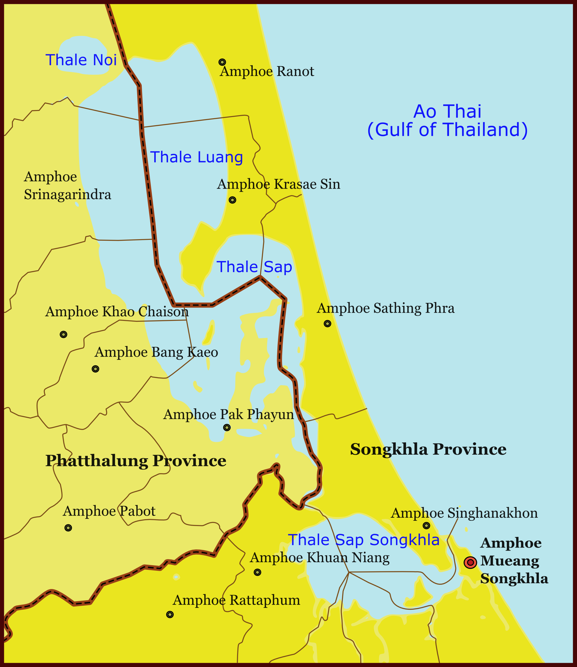 Map of Thale Sap, Songkhla and Phatthalung provinces, southern Thailand